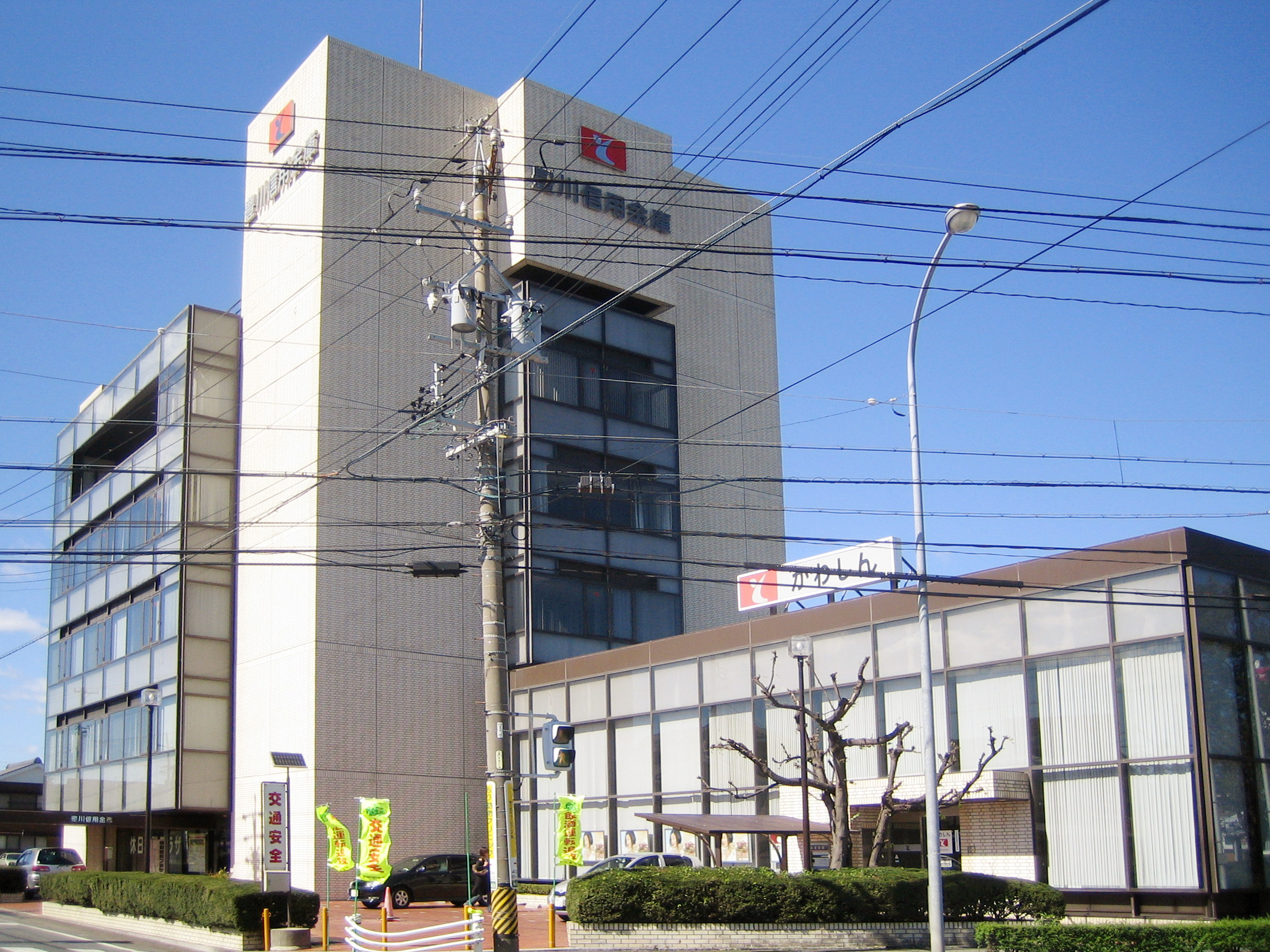 Toyokawa Shinkin Bank (豊川信用金庫 Toyokawa Shinnyō Kinko), at Toyokawa, Aichi, Japan